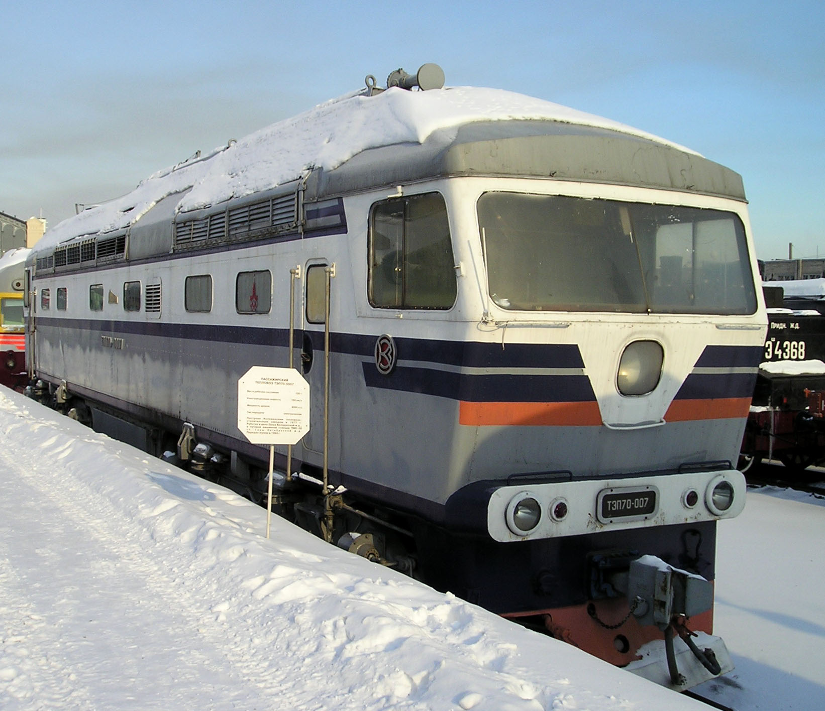 Diesel locomotive TEP70-007 in Railway Museum in Saint-Petersburg, Russia